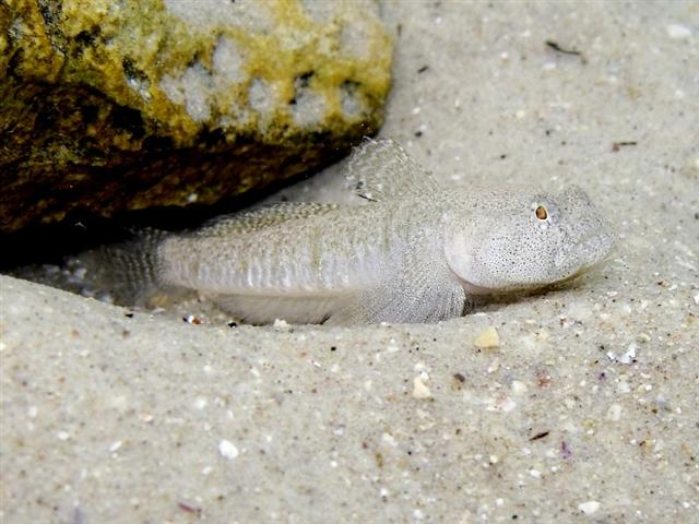 Male Pomatoschistus marmoratus photographed in Rab, Croatia